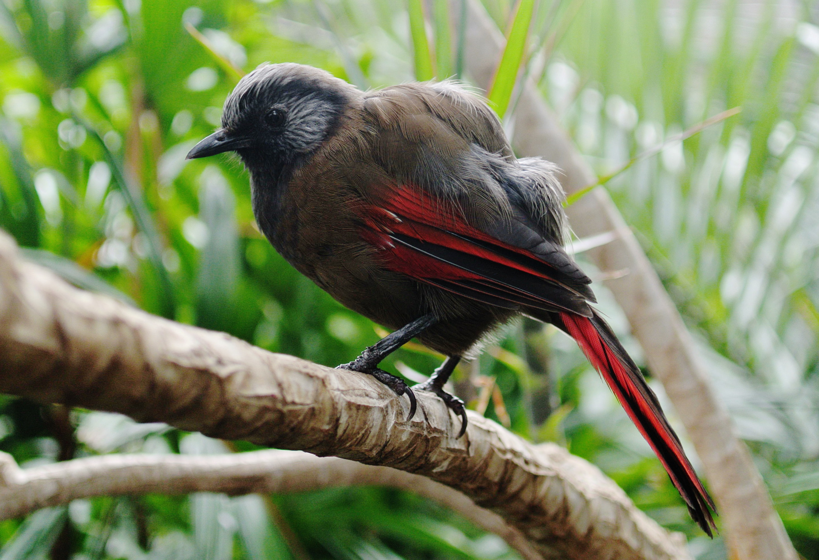 Red-winged Laughing Thrush in Bloedel Conservatory in Vancouver, Canada.